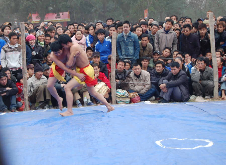 Vật-Competition at Hội Lim 2011